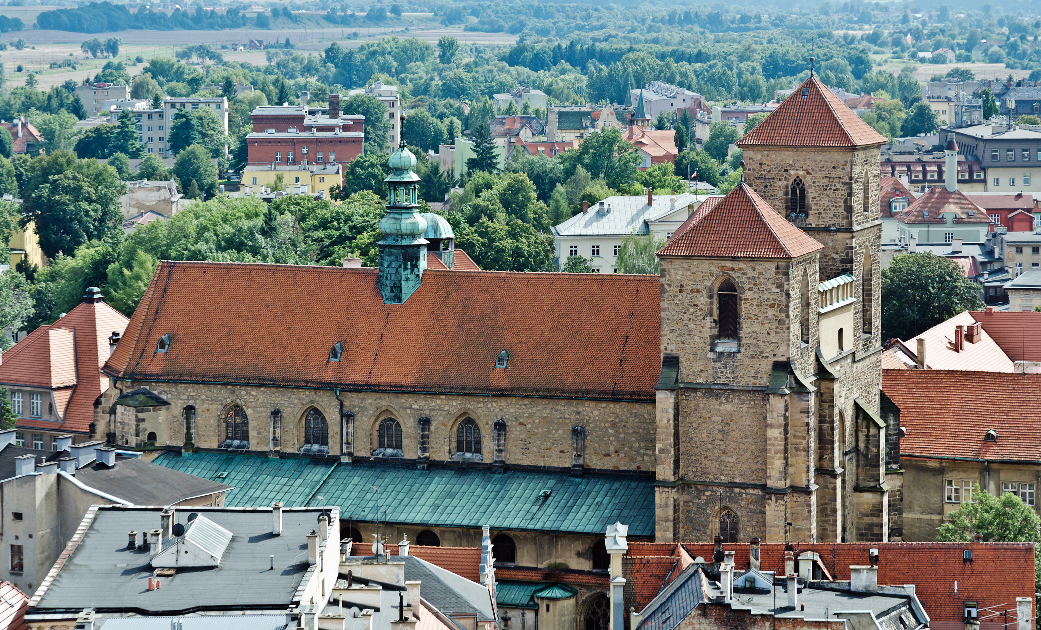 Church of the Assumption in Kłodzko